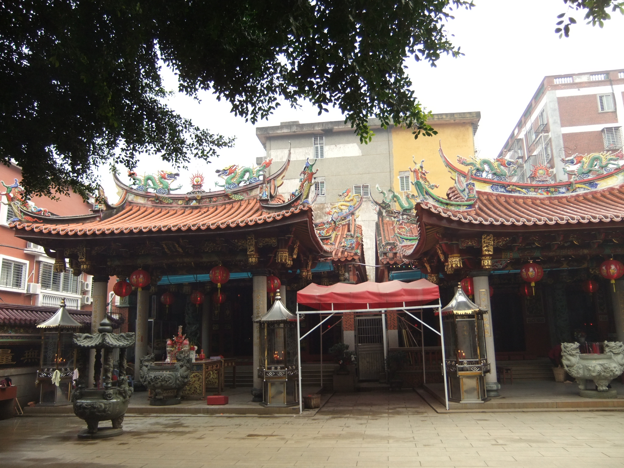 Quanjunxi Linggong, a temple by the bank of Sunwu Creek (Sunwu xi), NW of downtown Quanzhou, Fujian. The name can perhaps be translated as something like "The palace of spirits (linggong) by the brook (xi) in the land of springs (quanjun).